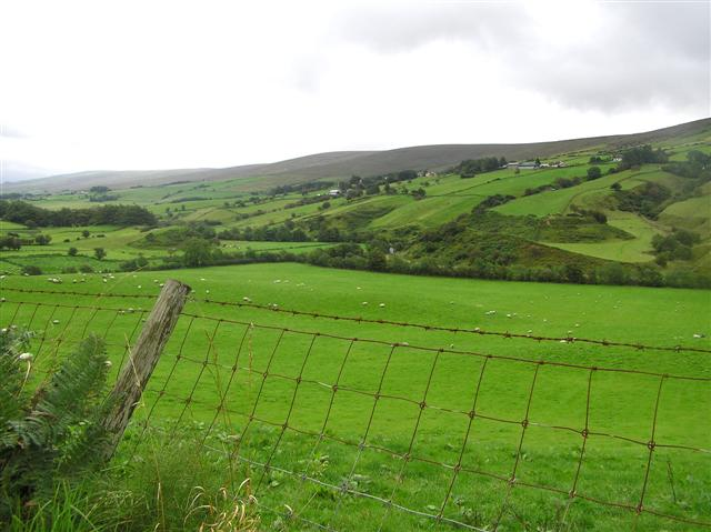 Oughtdoorish Townland, Cranagh. Getting near the village.